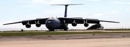 C-141 arriving at Guantanamo on January 11th, 2002, with the first 20 captives.